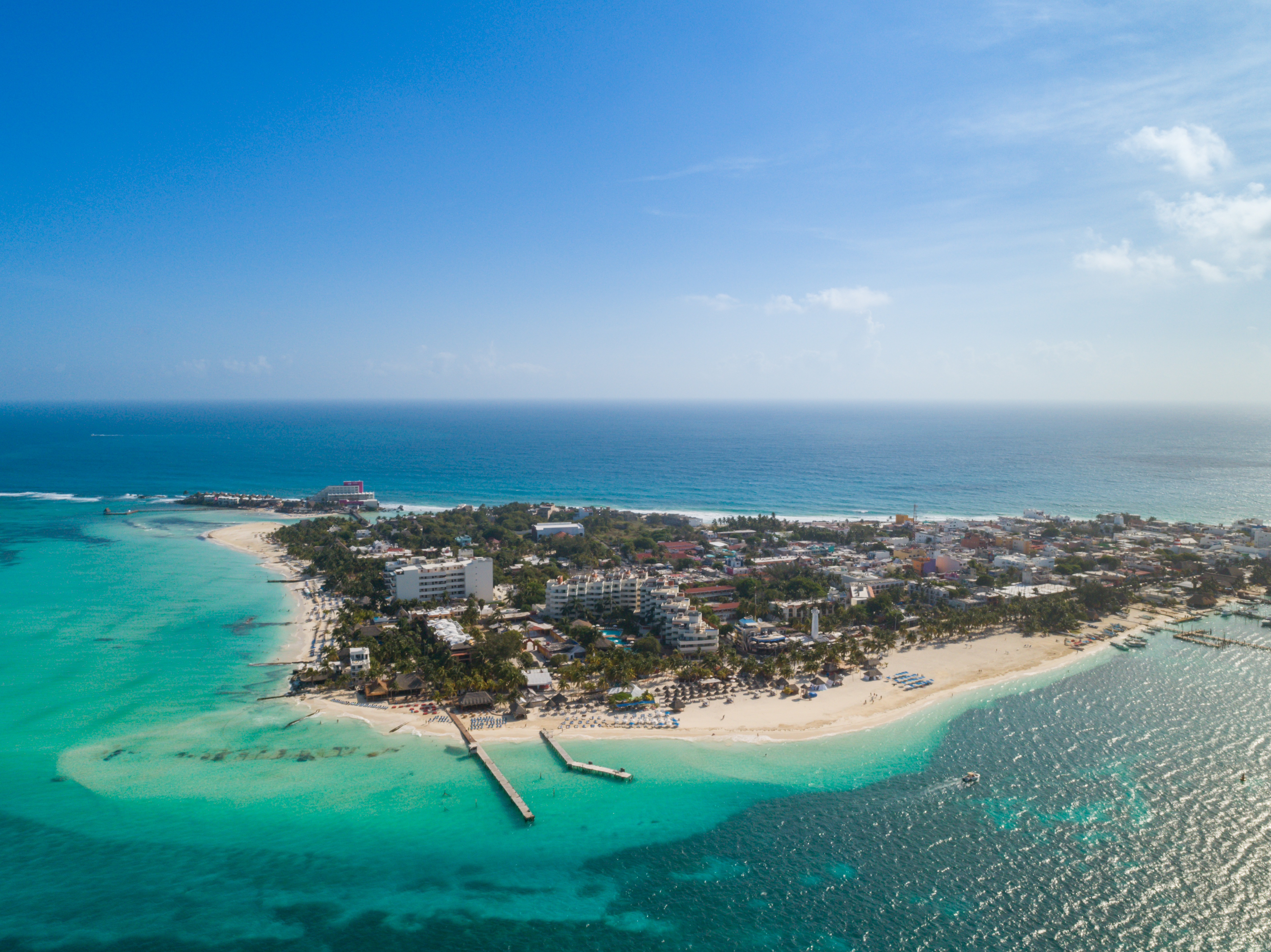 Caribbean Sea in Mexico